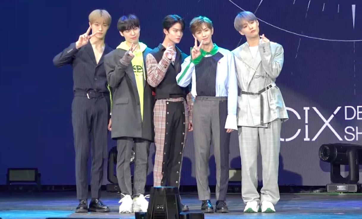 CIX, in their debut showcase, in 24 July 2019.